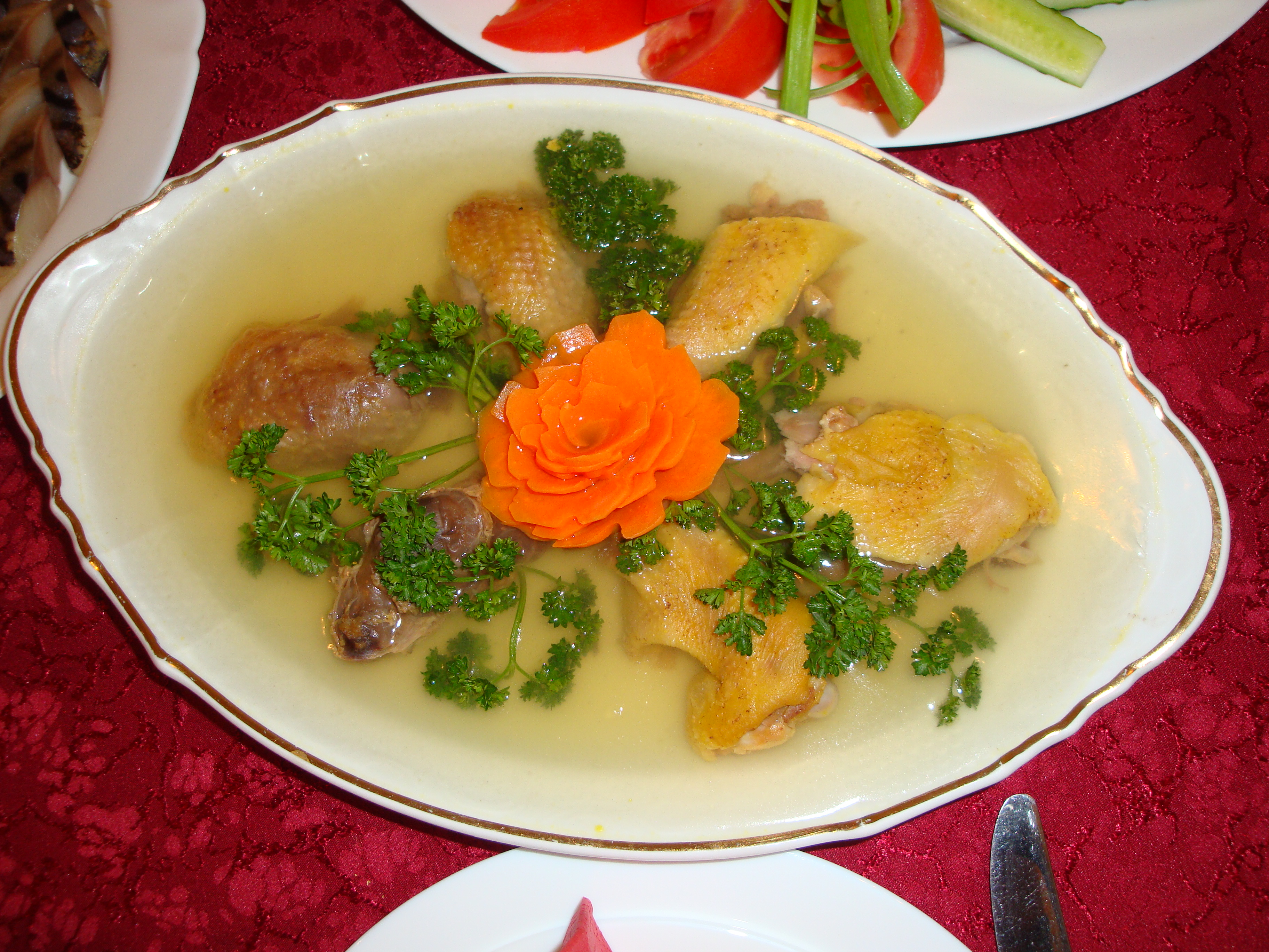 Meat Jelly from the Moldavian Cuisine